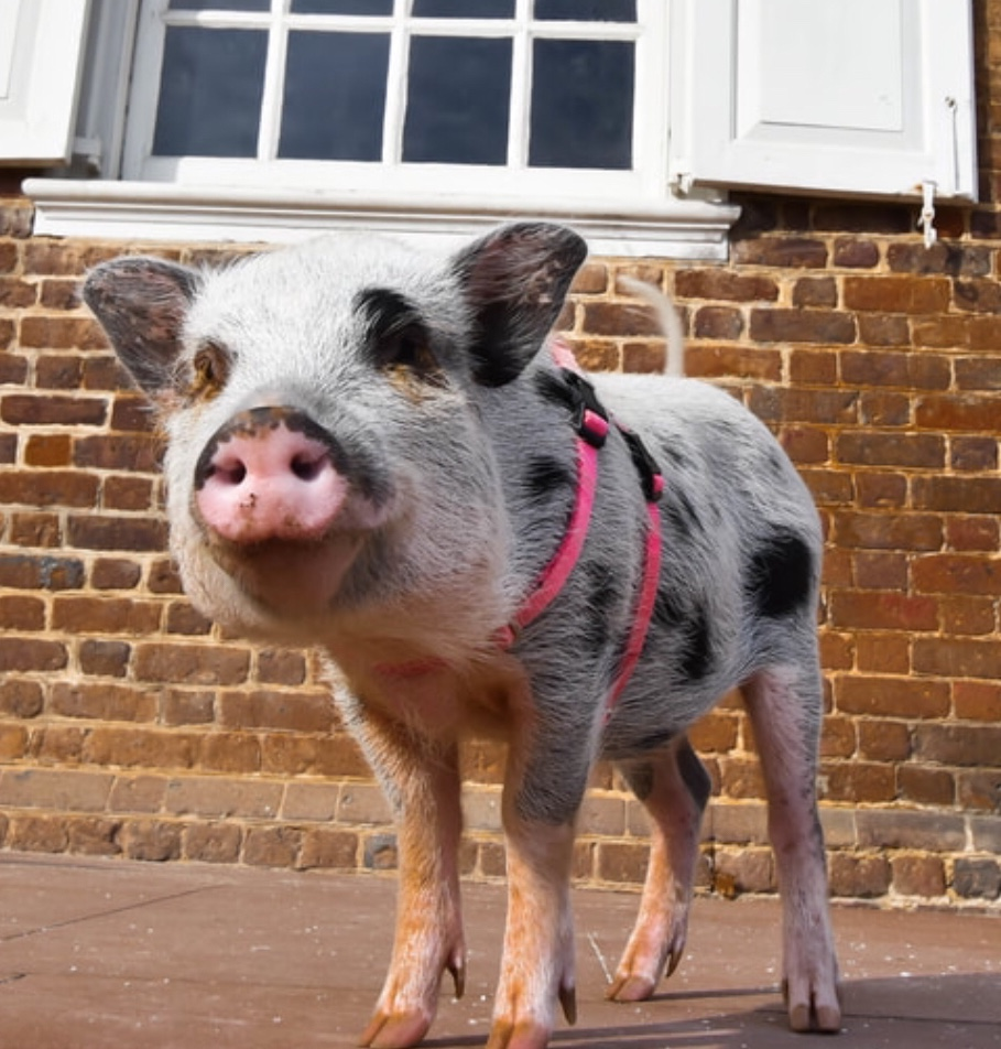 A Juliana pig is wearing a pink harness. Her name is Mollie. This photo does not belong to me. It is taken Life With Pigs; all rights go to them... I really don’t know when it was exactly taken, so I’m just putting the date as the day I’m uploading this.